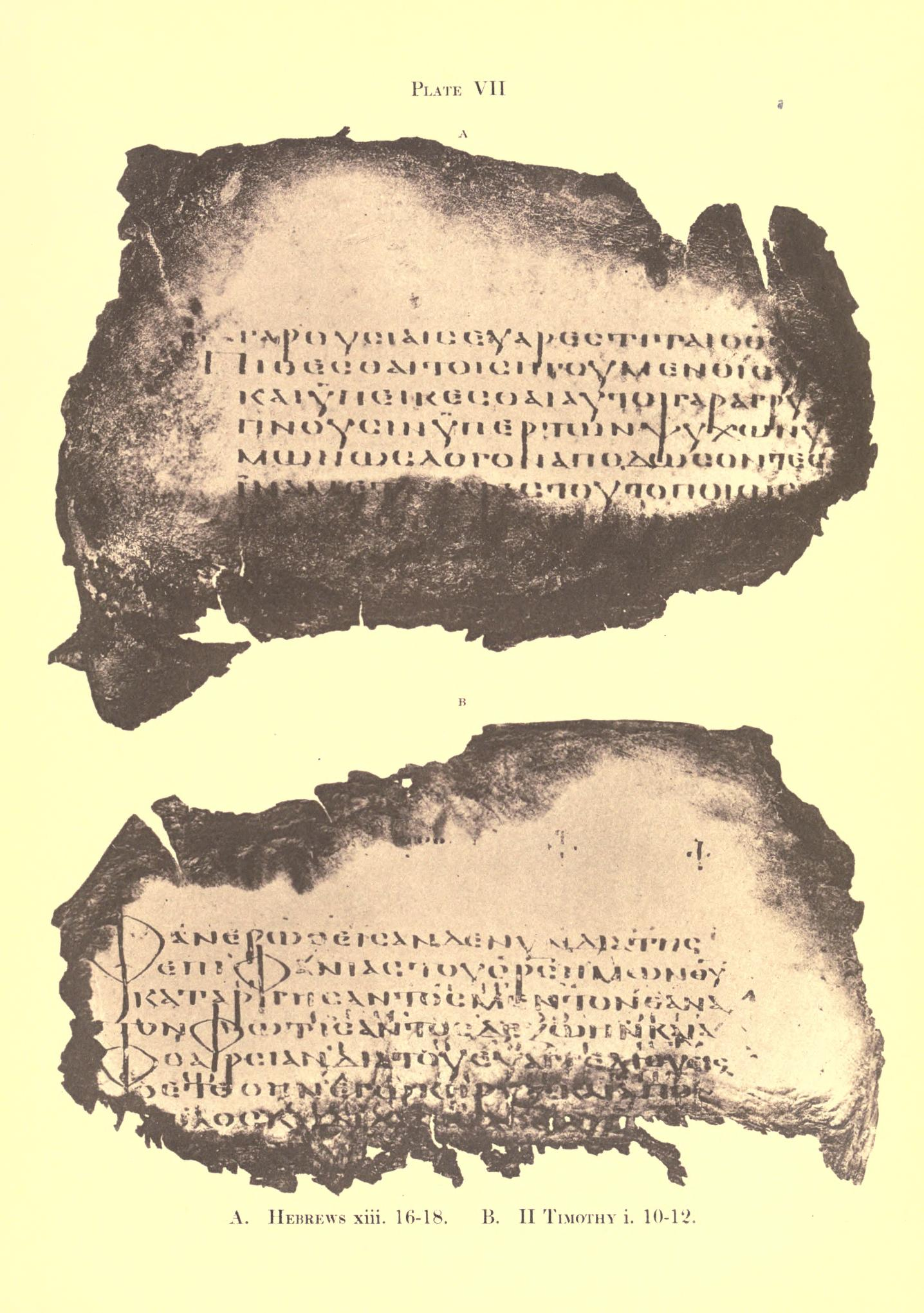 Palte VII from Sander's facsimile. (H. A. Sanders: The New Testament Manuscripts in the Freer Collection. New York – London: The Macmillan Company, 1918, p. 254) A. Hebrews 8:16–18 B. 2 Timothy 1:10–12